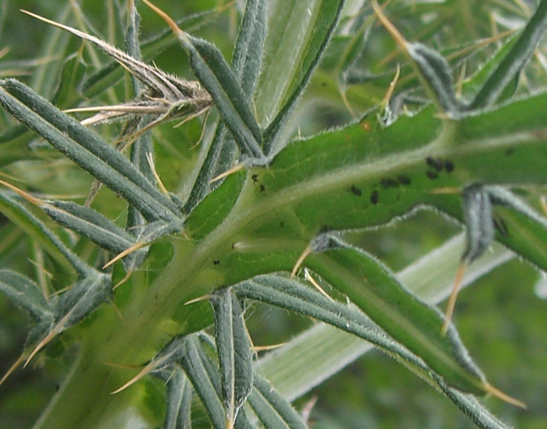 Detail of Cirsium eriophorum